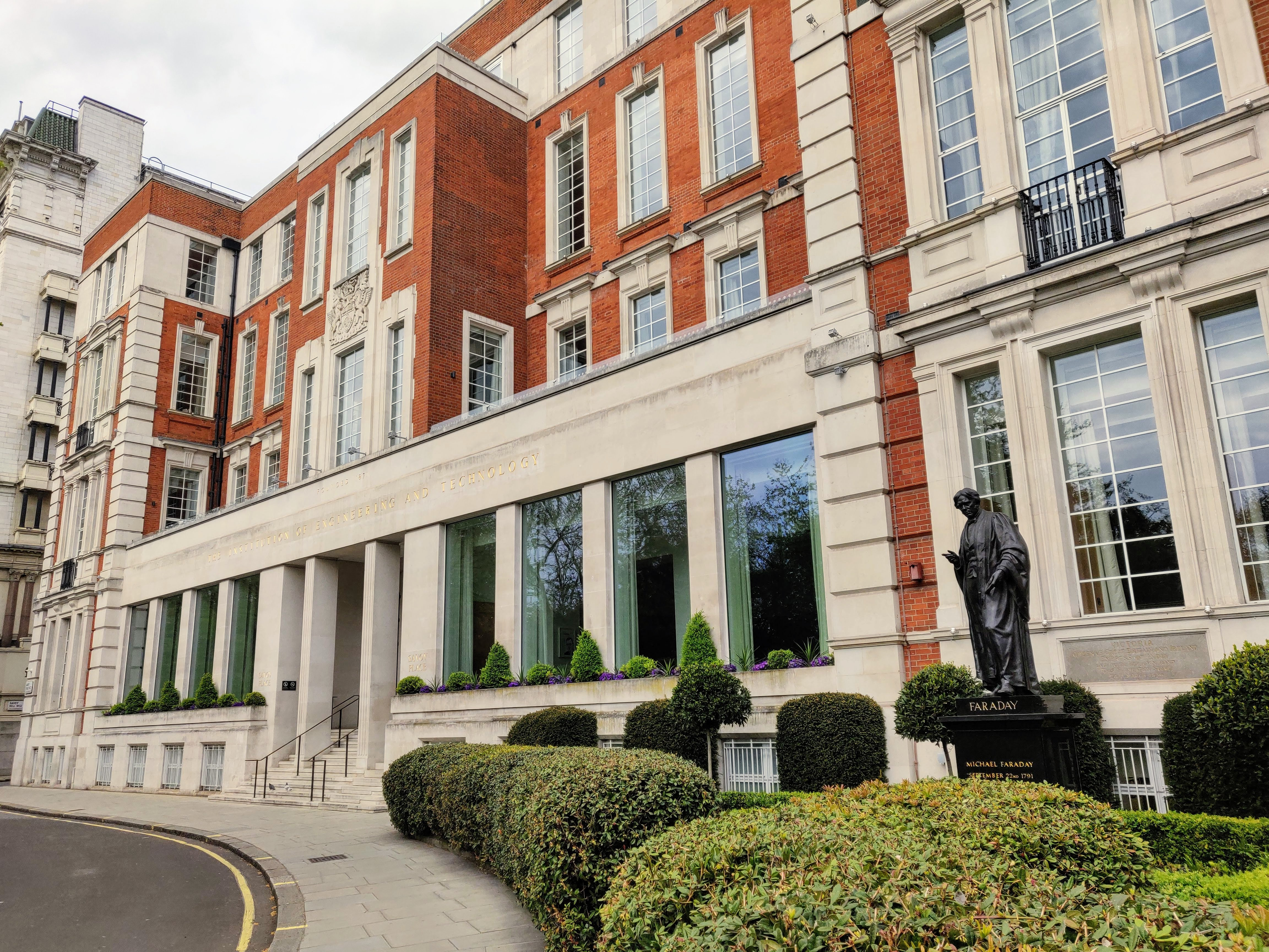 The Institution of Engineering and Technology is one of the learned societies in the UK. It's headquarters is along Savoy Place overlooking the Thames.